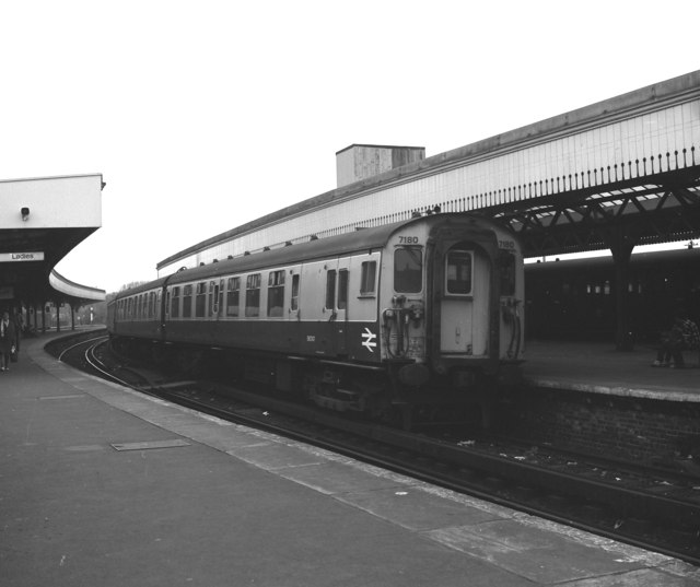 Margate station A 4-CEP unit at Margate